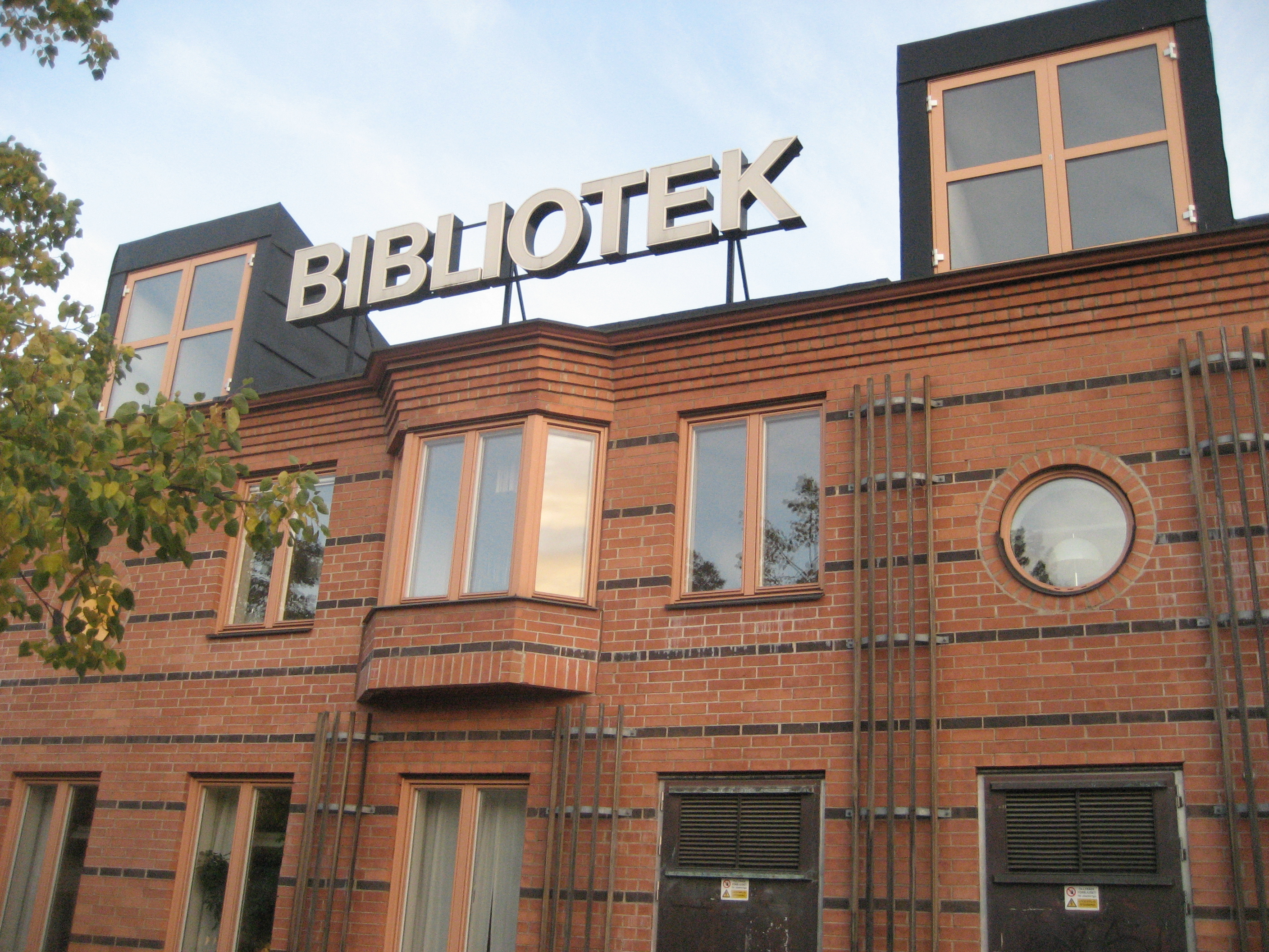 Public library (Stadsbibliotek), Svartbäcksgatan 17, Uppsala (Sweden)